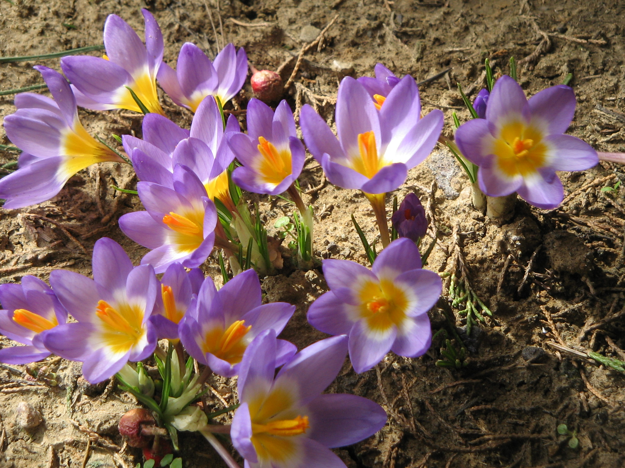 Crocus sieberi subsp. sublimis 'Tricolor'